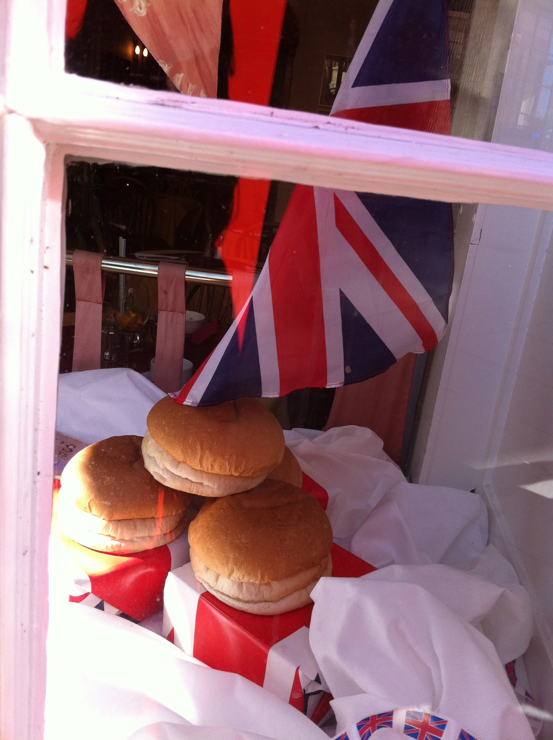 Sally Lunn bun. Yummy.